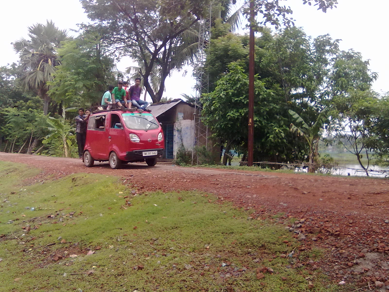 Nano transportation in Jhuruli, West Bengal, India